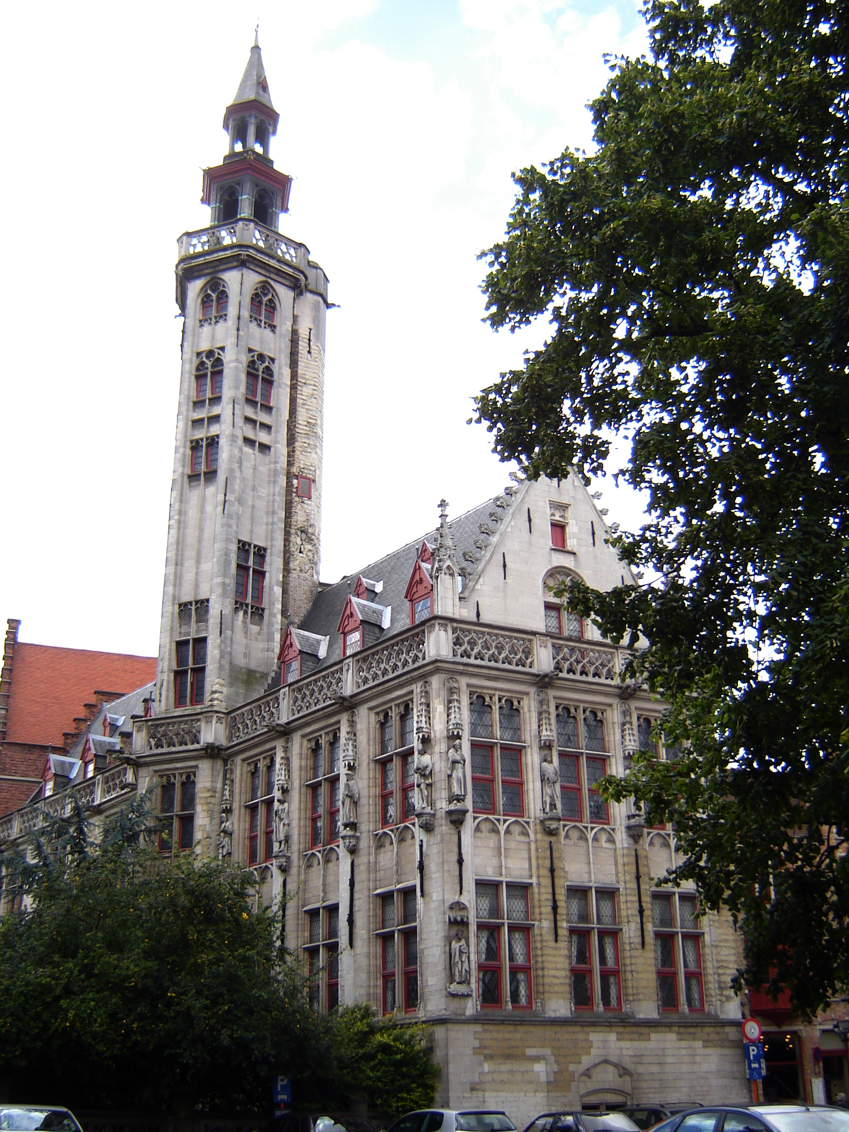 "Poortersloge" (Burgher's lodge) in Brugge. Brugge, West-Flanders, Belgium.